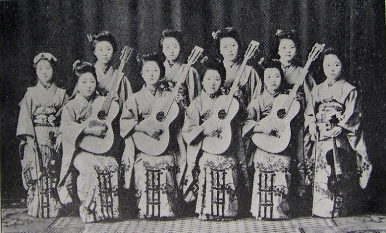 Shirokiya Shōjo Ongaku-tai ("Shirokiya Girls' Band"), an all girls performance group established by Shirokiya Gofukuten, Tokyo in 1911. Their repertoire included original songs, operetta-like short musicals and others.